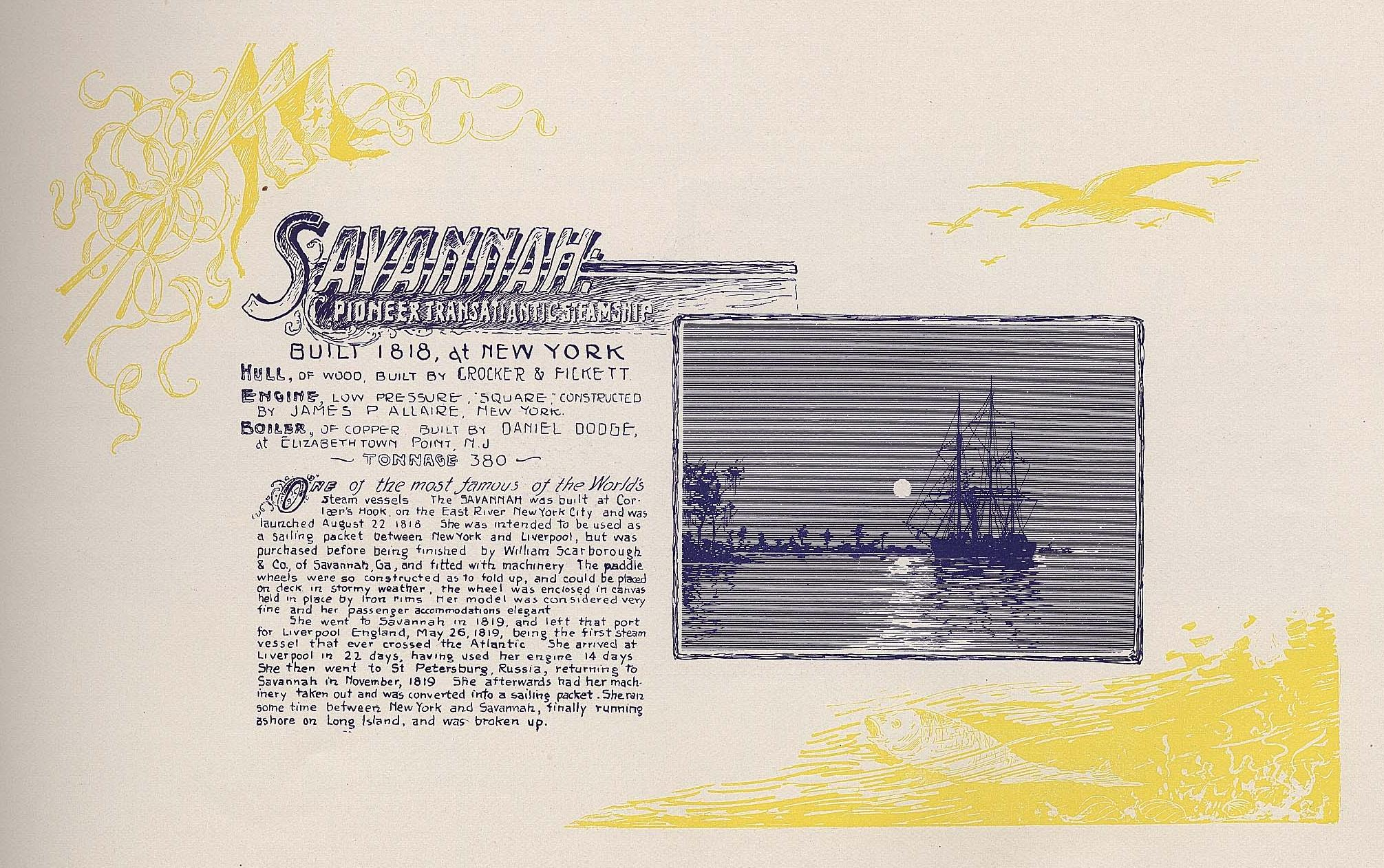 Savannah, first steamship to cross the Atlantic ocean (although mostly under sail).